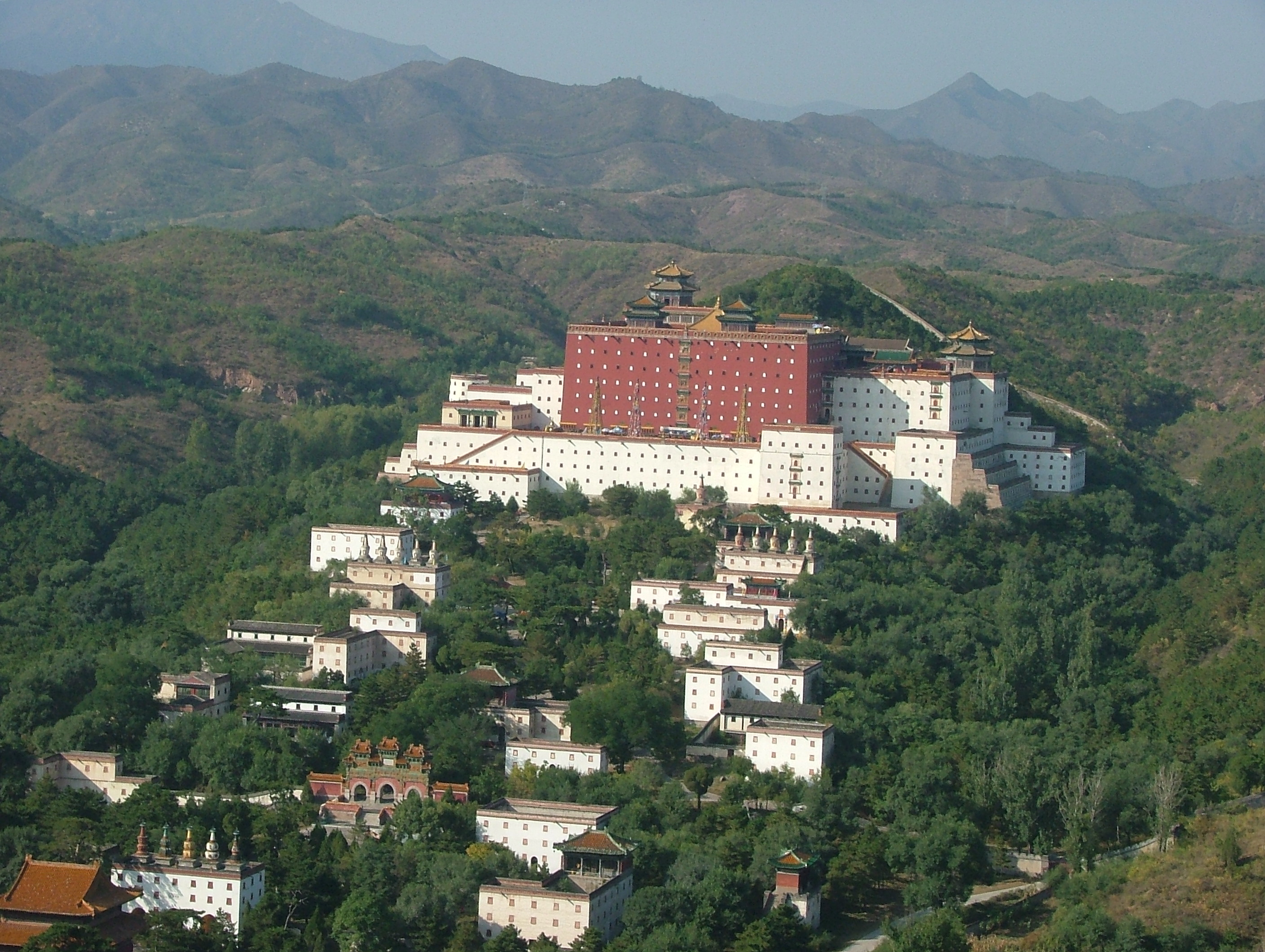 A photo of the National Heritage site, upon visit of it last summer.